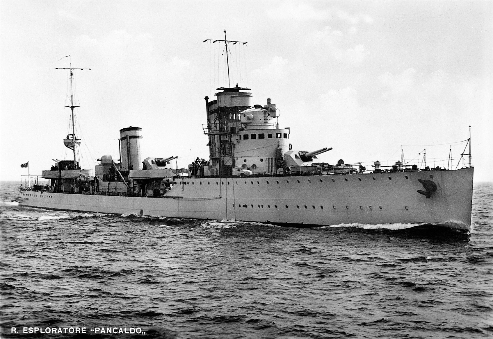 The Regia Marina destroyer Leone Pancaldo (PN) of Navigatori class destroyer in navigation.